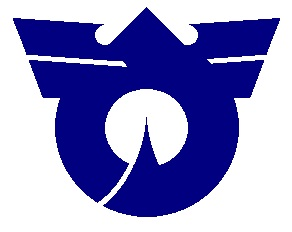 Kisosaki Mie chapter